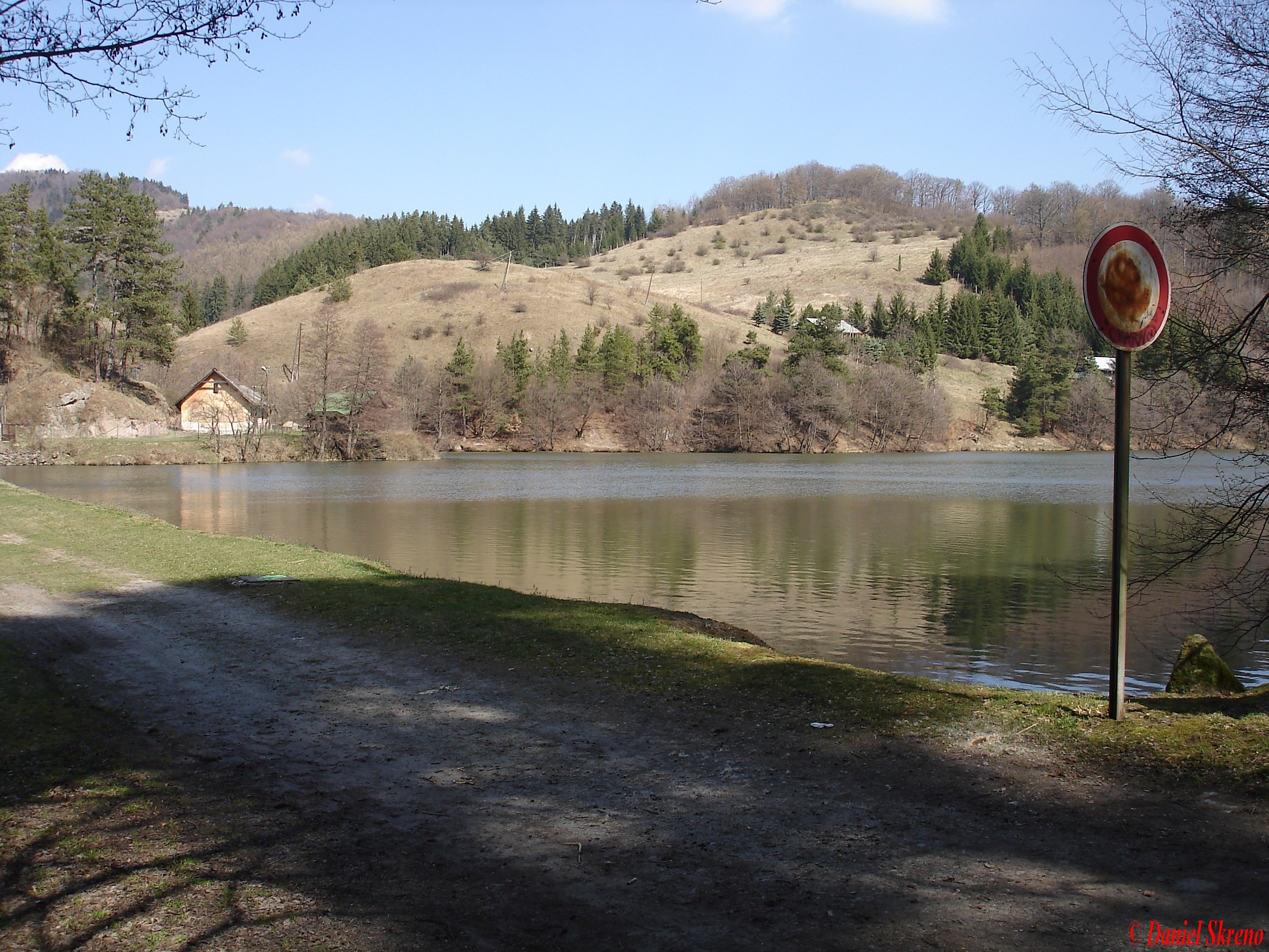 pohlad na jazero z hrádze Contents 1 Summary 2 Licensing 3 Original upload log 3.1 Original upload log Summary Description Halčianské jazero Date03.09.2007SourceOwn madeAuthorDaniel SkrenoPermission (Reusing this file) Cc-by-sa-2.5 Halčianské jazero